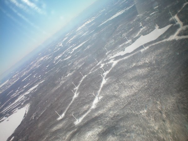 Prince Township Wind Farm is the largest wind farm in Canada. It is north of Sault Ste. Marie, Ontario, mostly within the Township of Prince, and extending into Unorganized Algoma (Dennis & Pennefeather Twps.).